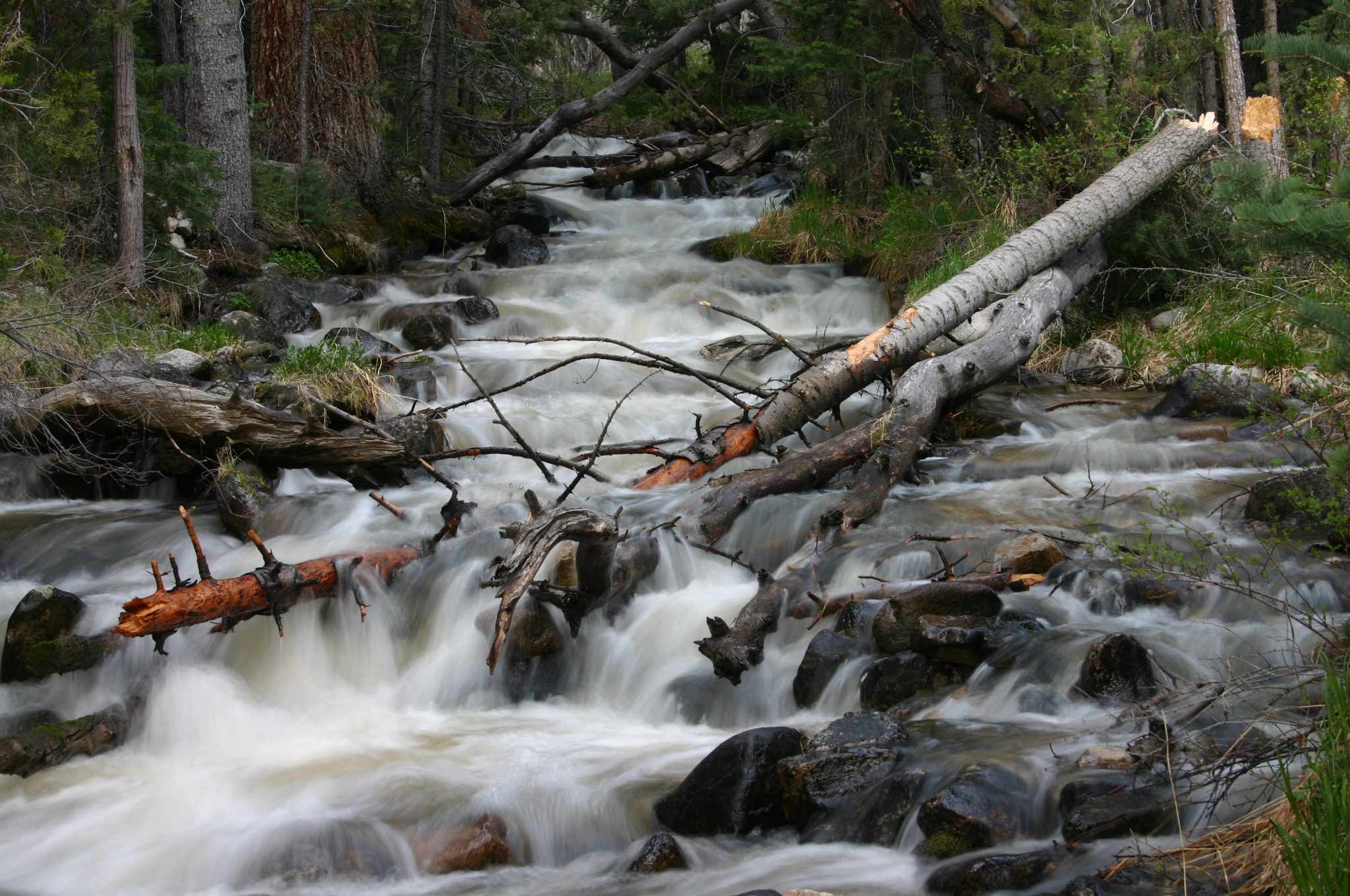 Details of flowing water at Lehman Creek, Great Basin National Park, Nevada, USA.